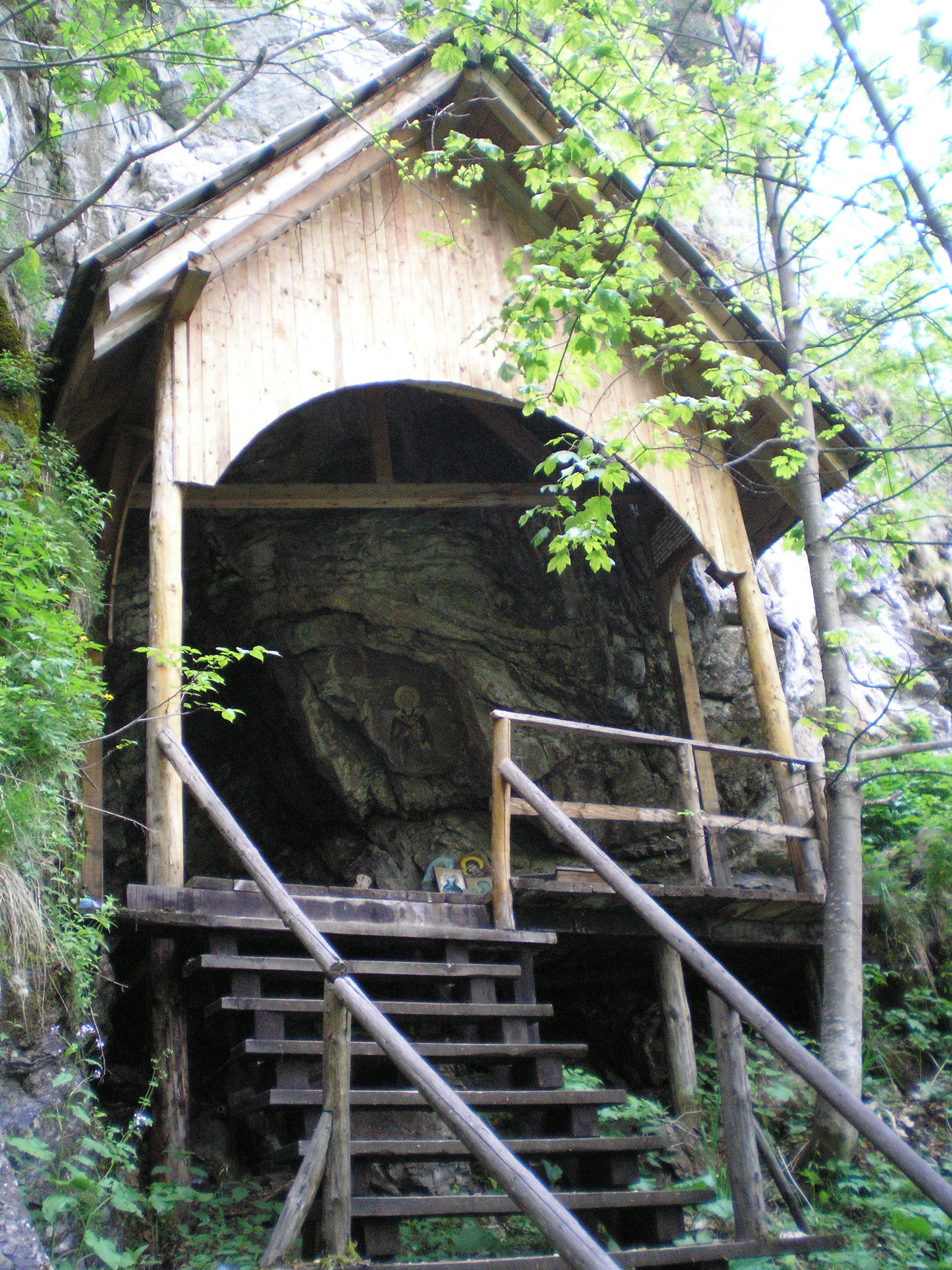 shrine „Metodje"